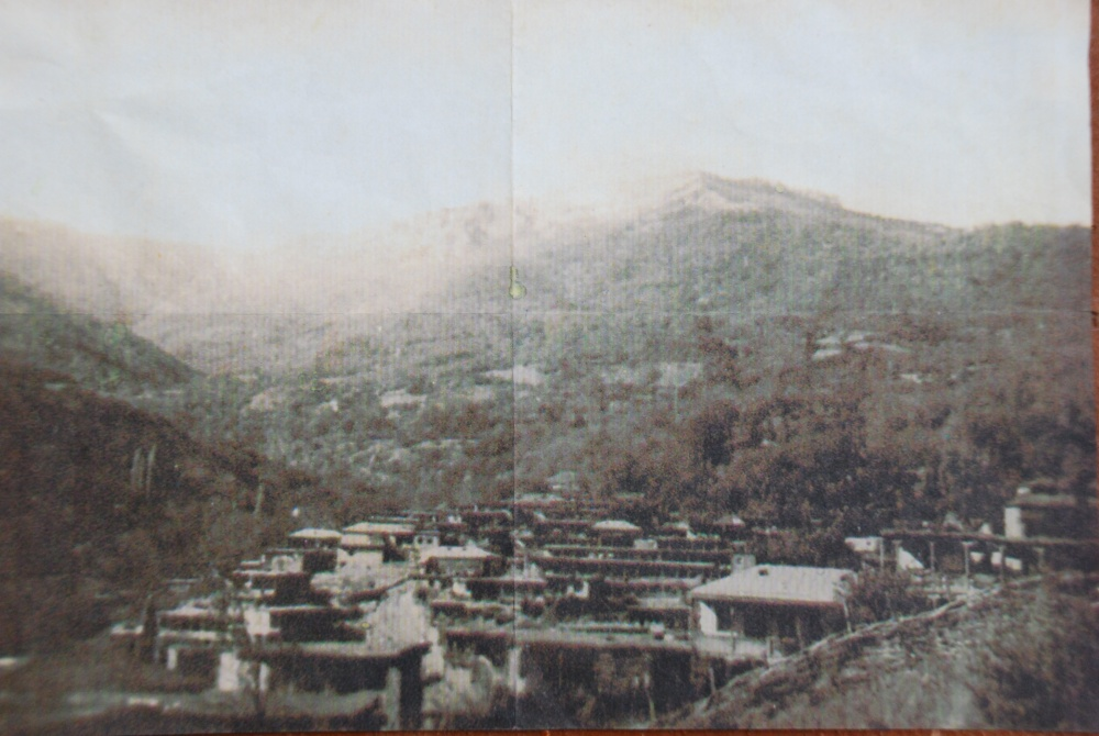 The village of Ulu-Uzen, Crimea. 1920